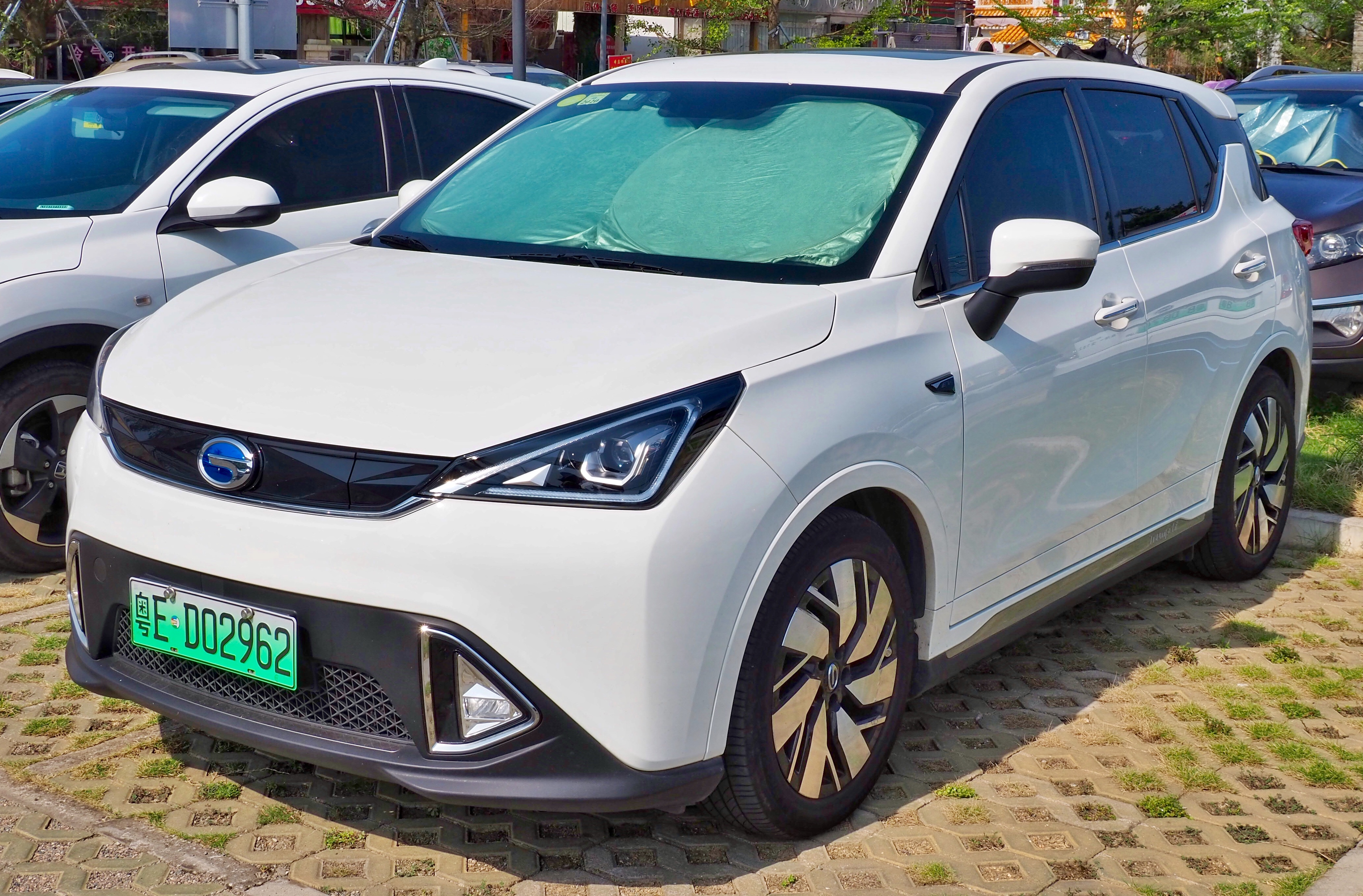 A 2018 GAC Trumpchi GE3 photographed in Shenzhen, Guangdong province, China. 中文（中国大陆）: 一辆2018年的广汽传祺GE3，拍摄于中国广东省深圳市。